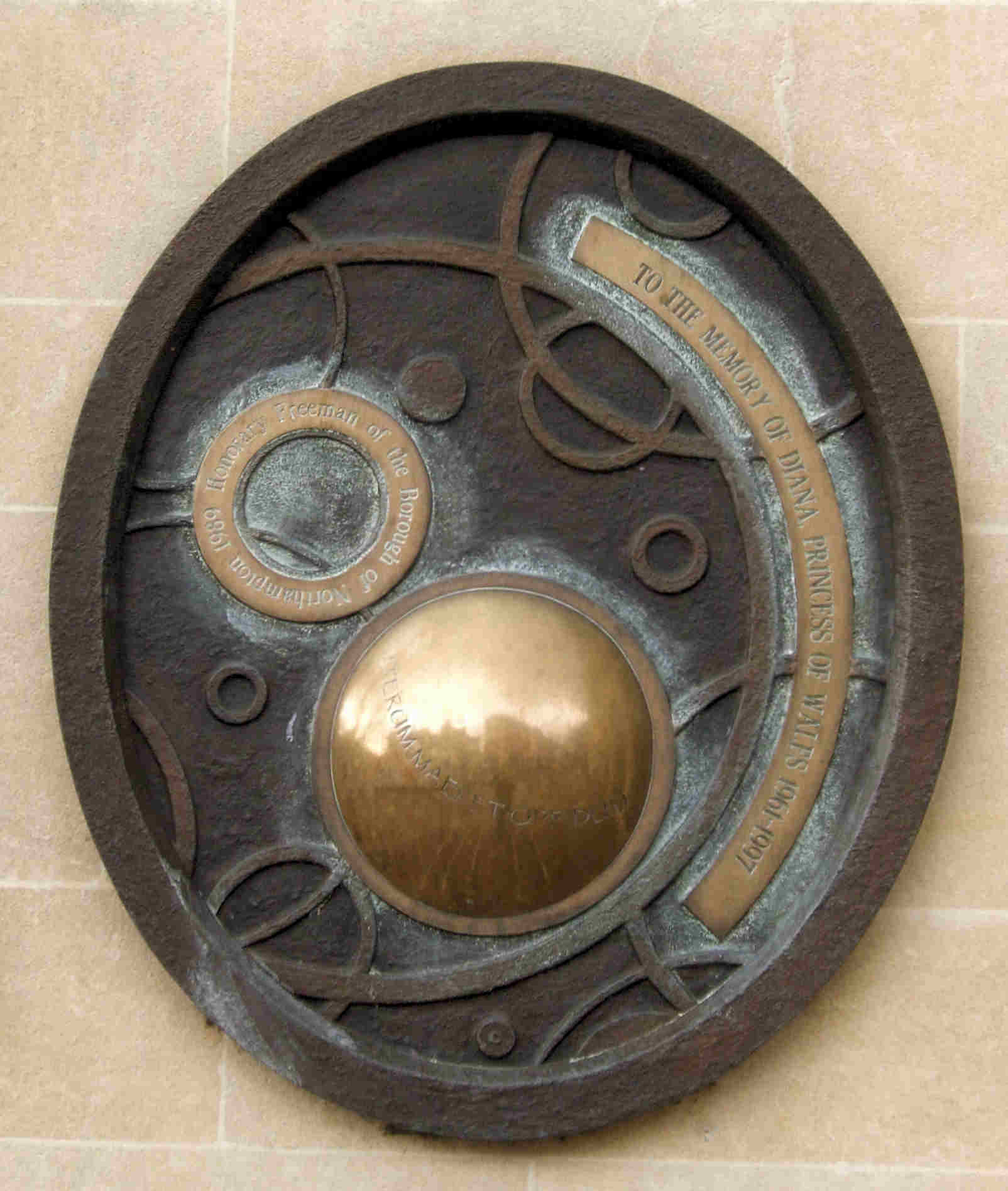 Memorial to Diana, Princess of Wales, on Northampton Guildhall, 16 February 2010